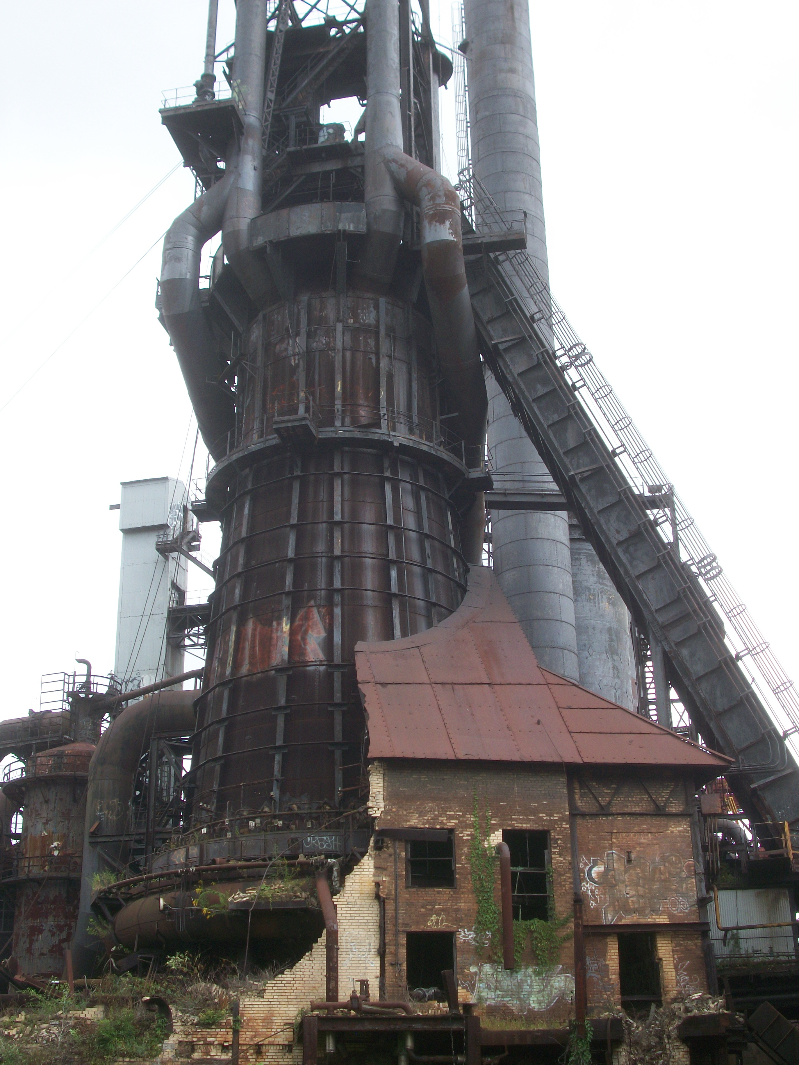 Taken 9-12-15.